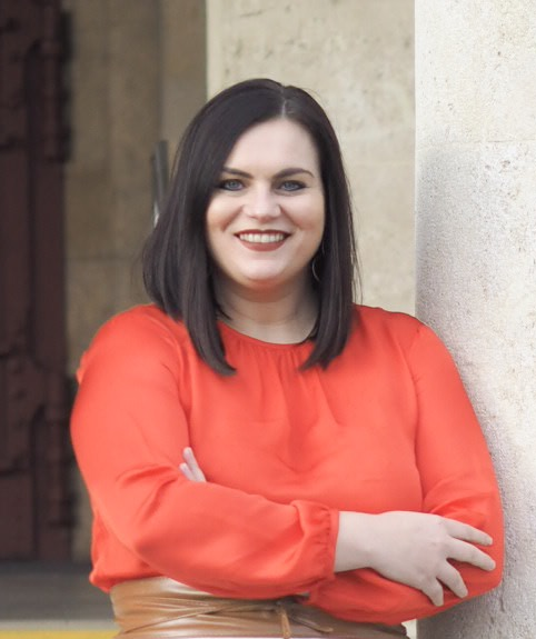 Astrid Eisenkopf in front of the Landesregierung Eisenstadt